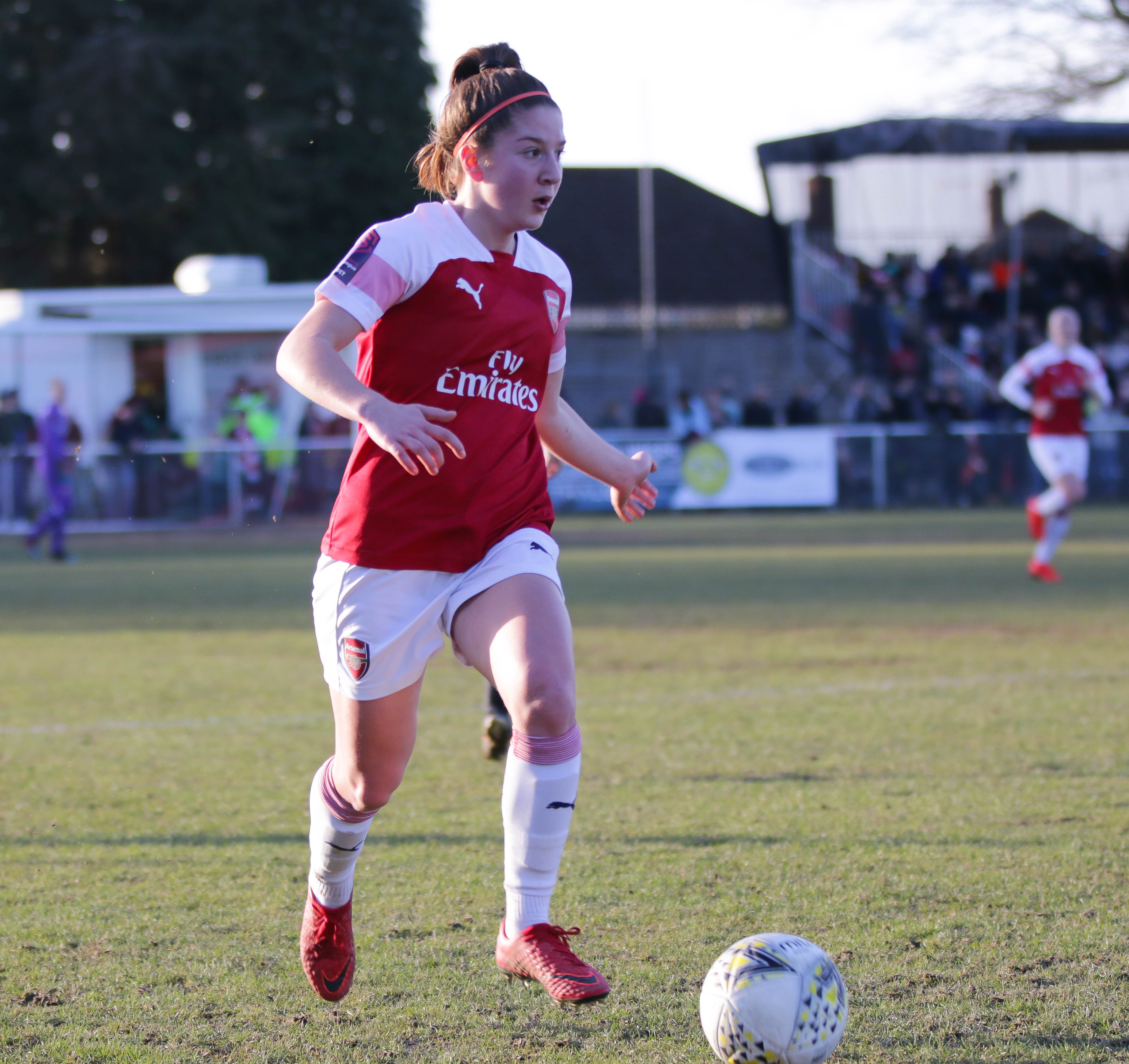 Ruby Grant playing for Arsenal in February 2019